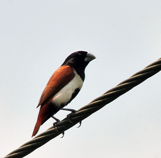 Black-headed Munia in Kolkata, West Bengal, India.